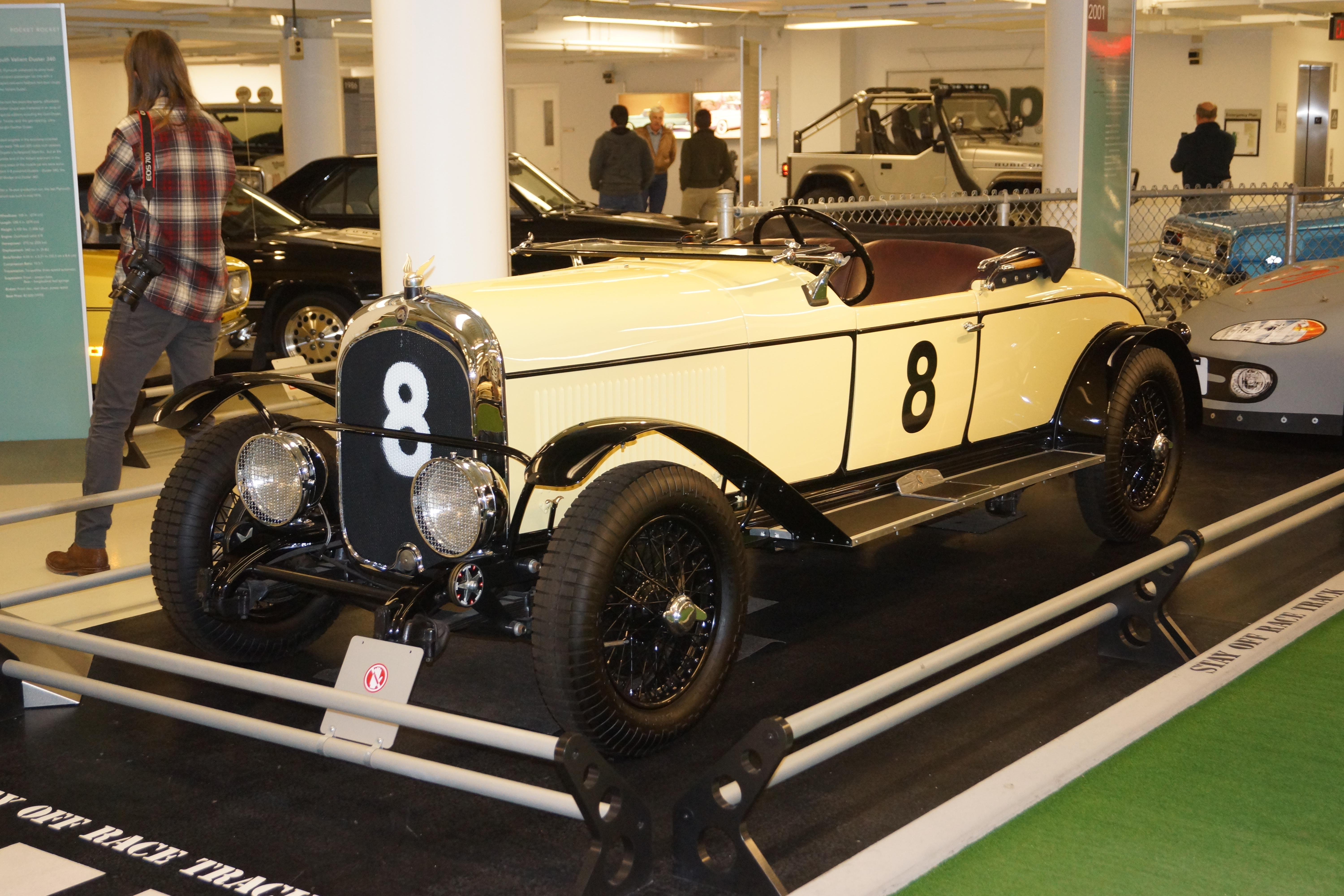 Click here for more car pictures at my Flickr site. Or here for my Car Crazy Tumblr site. Back on November 4th, Hemming's Blog posted an article about the closing of the Walter P. Chrysler Museum . I had missed a couple other opportunities with the WPC Club and others to get into the museum, after it had closed to the public. I did not want to regret missing this last chance to see all of the vehicles before being spread out to other facilities. I trekked from Western Minnesota to Eastern Michigan during Winter Storm Decima. I missed the worst parts of the storm, but still had to endure the aftermath winds, sub zero temperatures and a lake effect snow storm. The trip was difficult, but well worth it. I got to see several Chrysler Corporation concept and show cars that I had only seen pictures of before. There were several clever interactive displays demonstrating various innovations over the years. Since it was the last chance, I duplicated several shots using different camera settings to see what produced better results. I wish I had invested in a strobe light diffuser for all of those indoor pictures. I have not had much experience or success in the past with indoor car images.